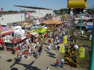 A view of the crowd behing the Grand Stands where many of the food stands are located.